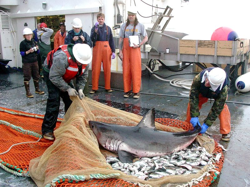 Salmon shark (Lamna ditropis) caught in a trawl.